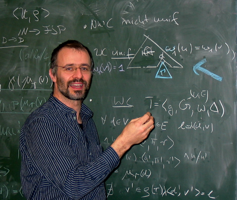 Michael Kohlhase explains the nested working copy problem.